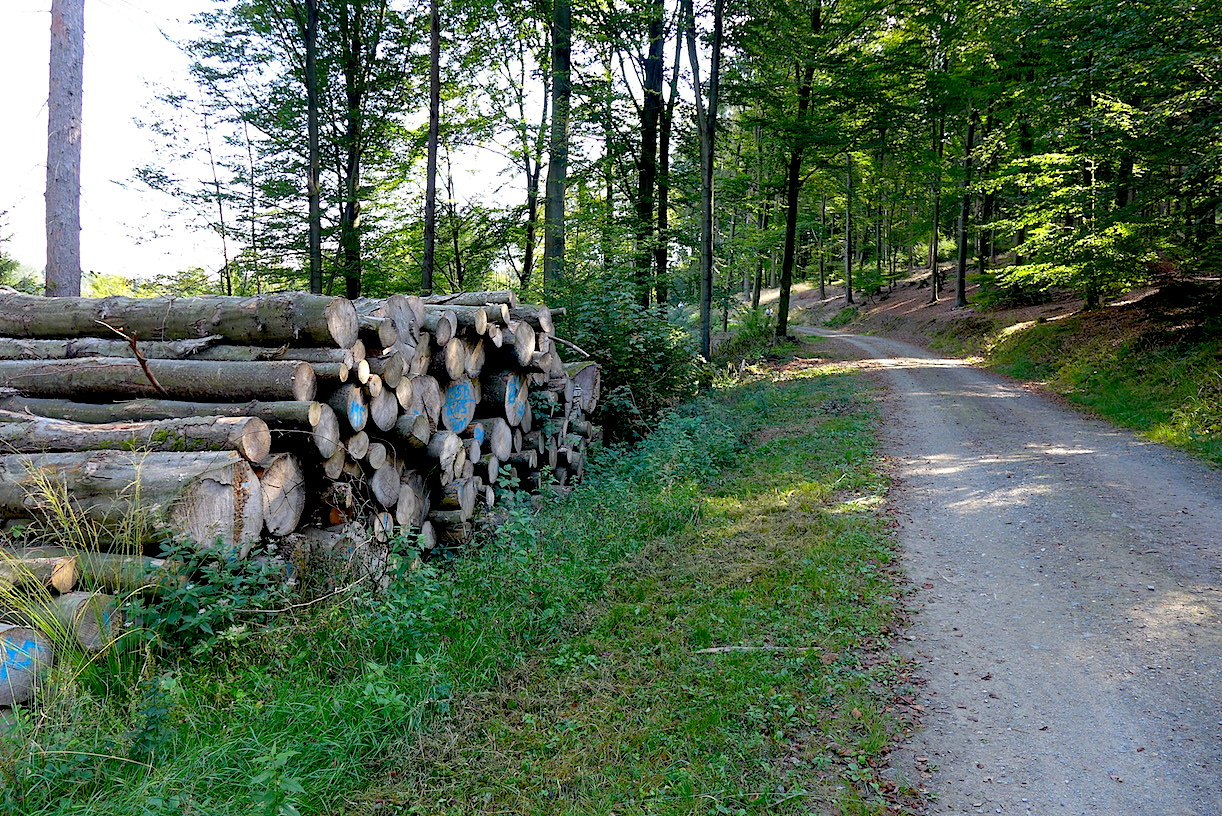 "Blade track" - the tourist marked route around the German city of Solingen (Northern Rhine-Westphalia). 4th stage: around a reservoir of Sengbachtalsperre. 9,0 km.